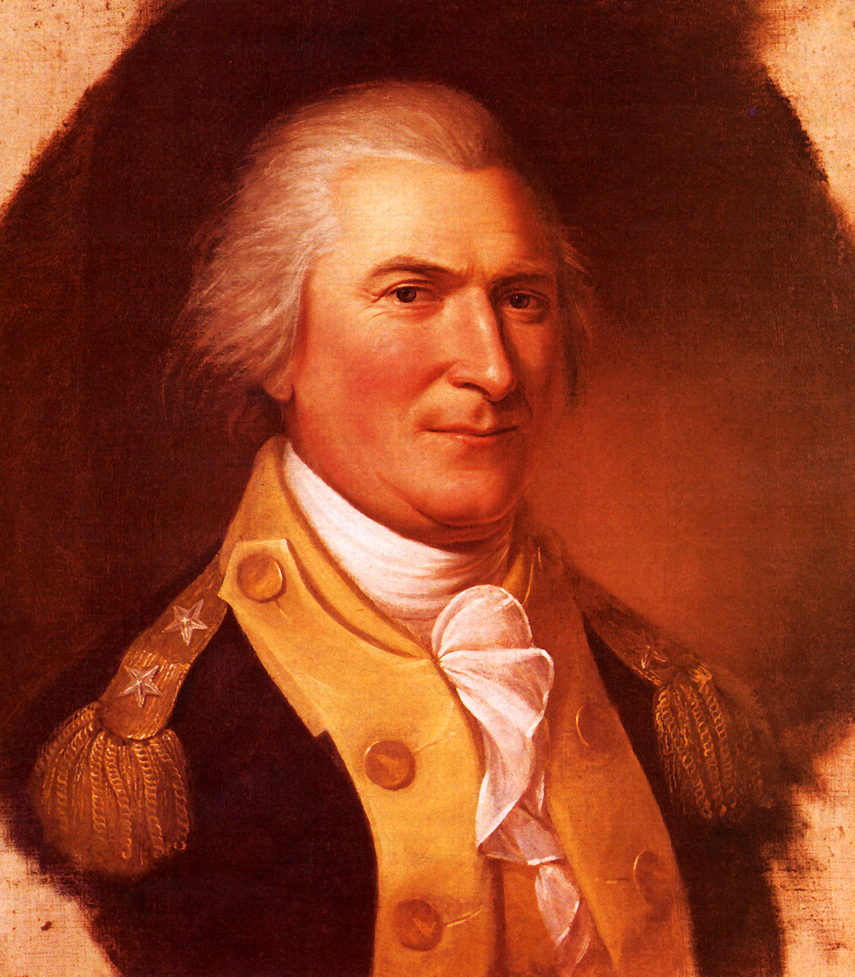 Official portrait of American Revolutionary War General Arthur St. Clair (1737-1818)